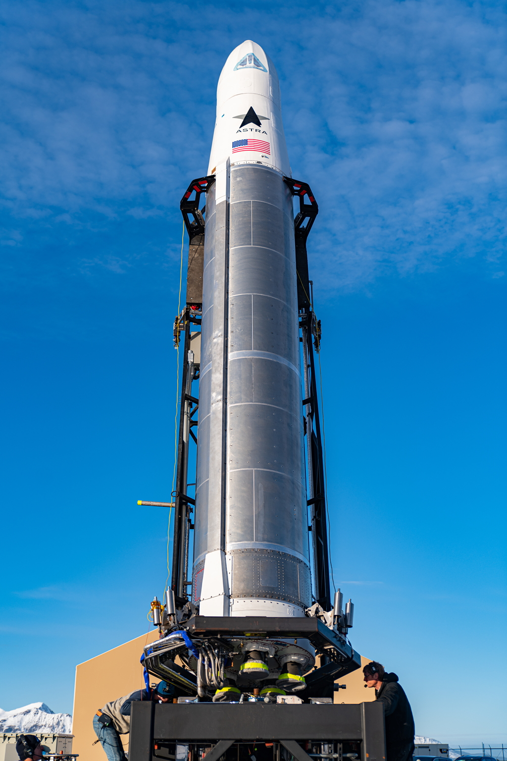 Launch campaign of the first Rocket 3.0 of Astra Space.